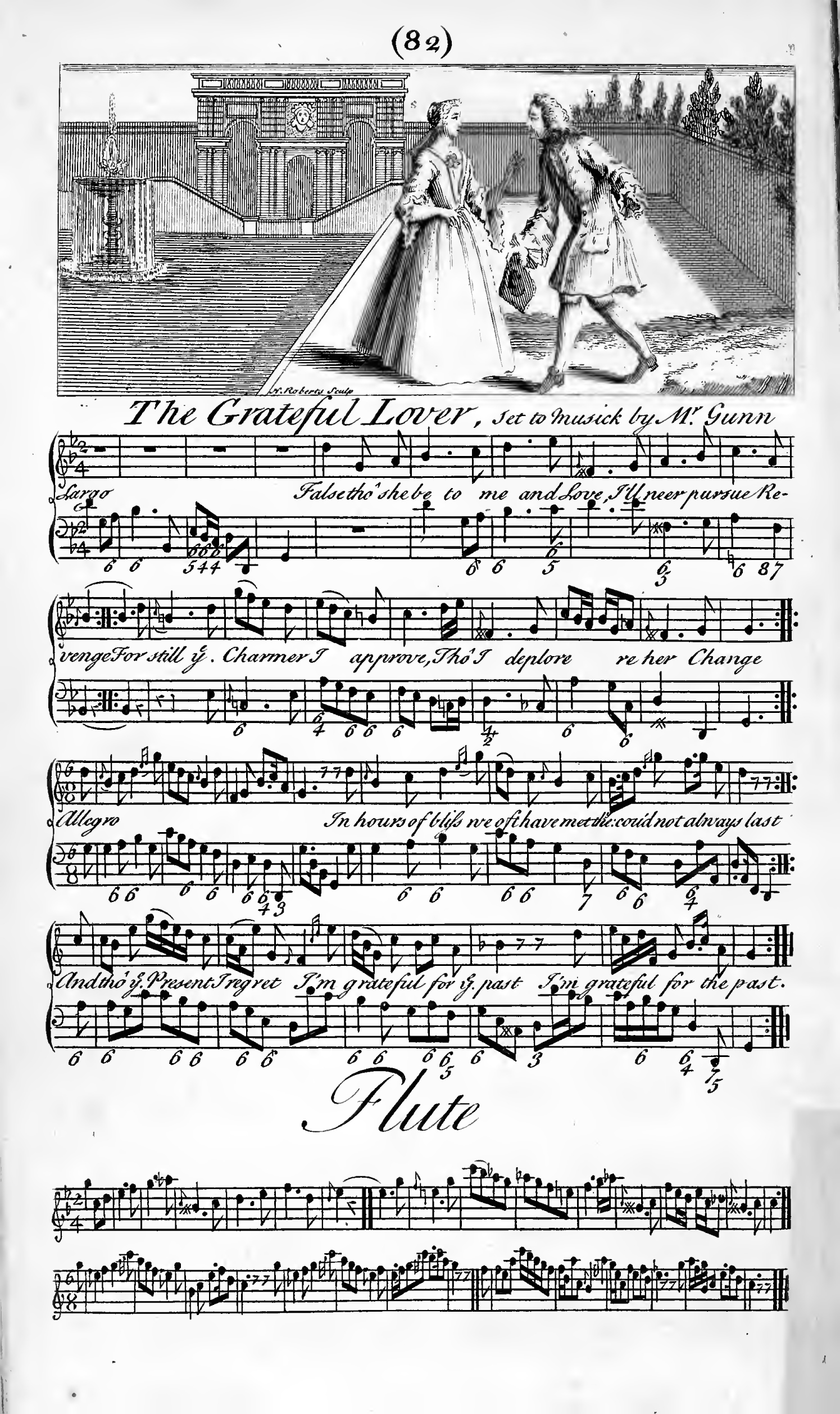 Sheet music for "The Grateful Lover" by Barnabas Gunn, published in 1739.